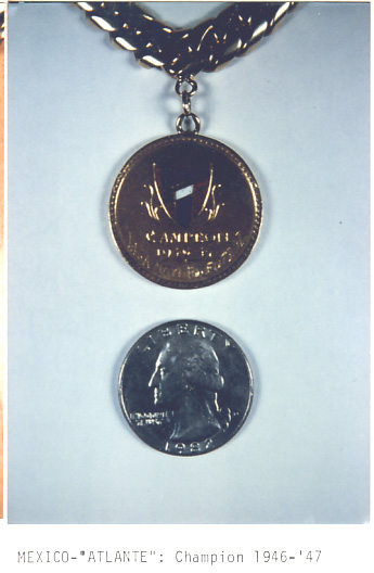 medal given to the players of the Atlante 1946-47 team that won their first Professional League Title